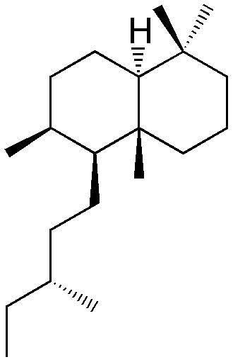 chemical structure of labdane